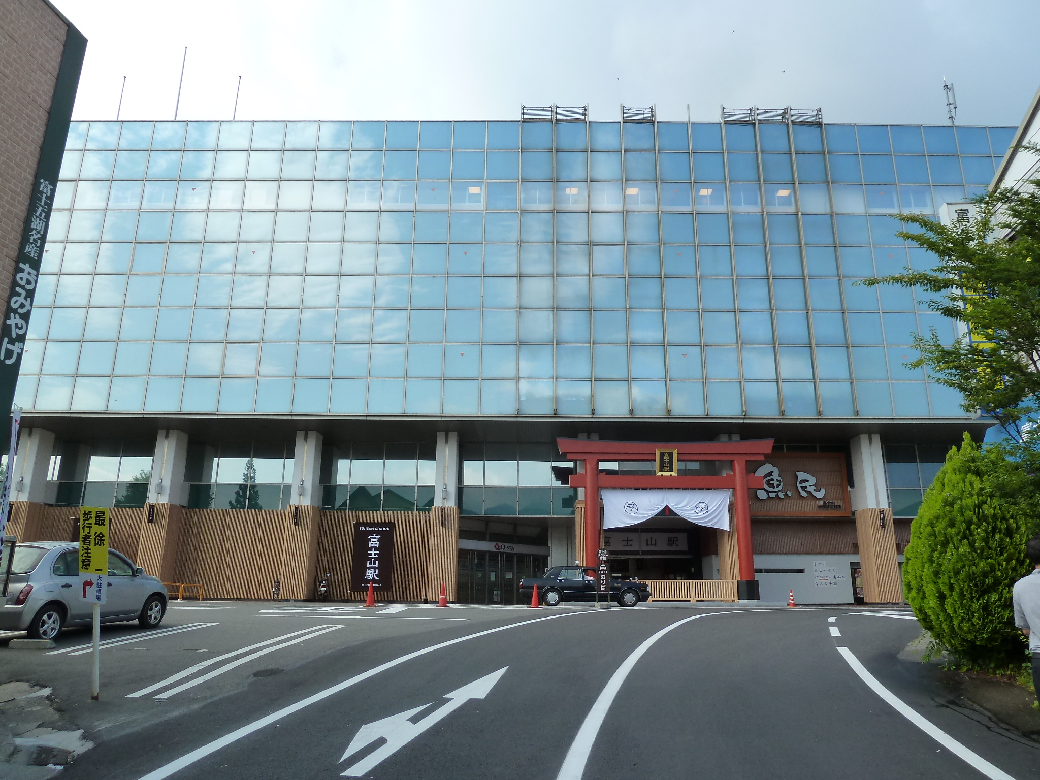 Fujisan Station on Fujikyu Railway. (5-1,Kamiyoshida 2-chome,Fujiyoshida-shi,Yamanashi-ken,JAPAN)